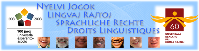 Logo for the Symposium about Lingiustic Rights of Universala Esperanto Asocio and Congo at United Nations in Geneva on 24th April 2008 - Simbolo de la simpozio pri Lingvaj Rajtoj de Universala Esperanto-Asocio kaj Congo ĉe Unuiĝintaj Nacioj en Ĝenevo la 24-an de aprilo 2008.